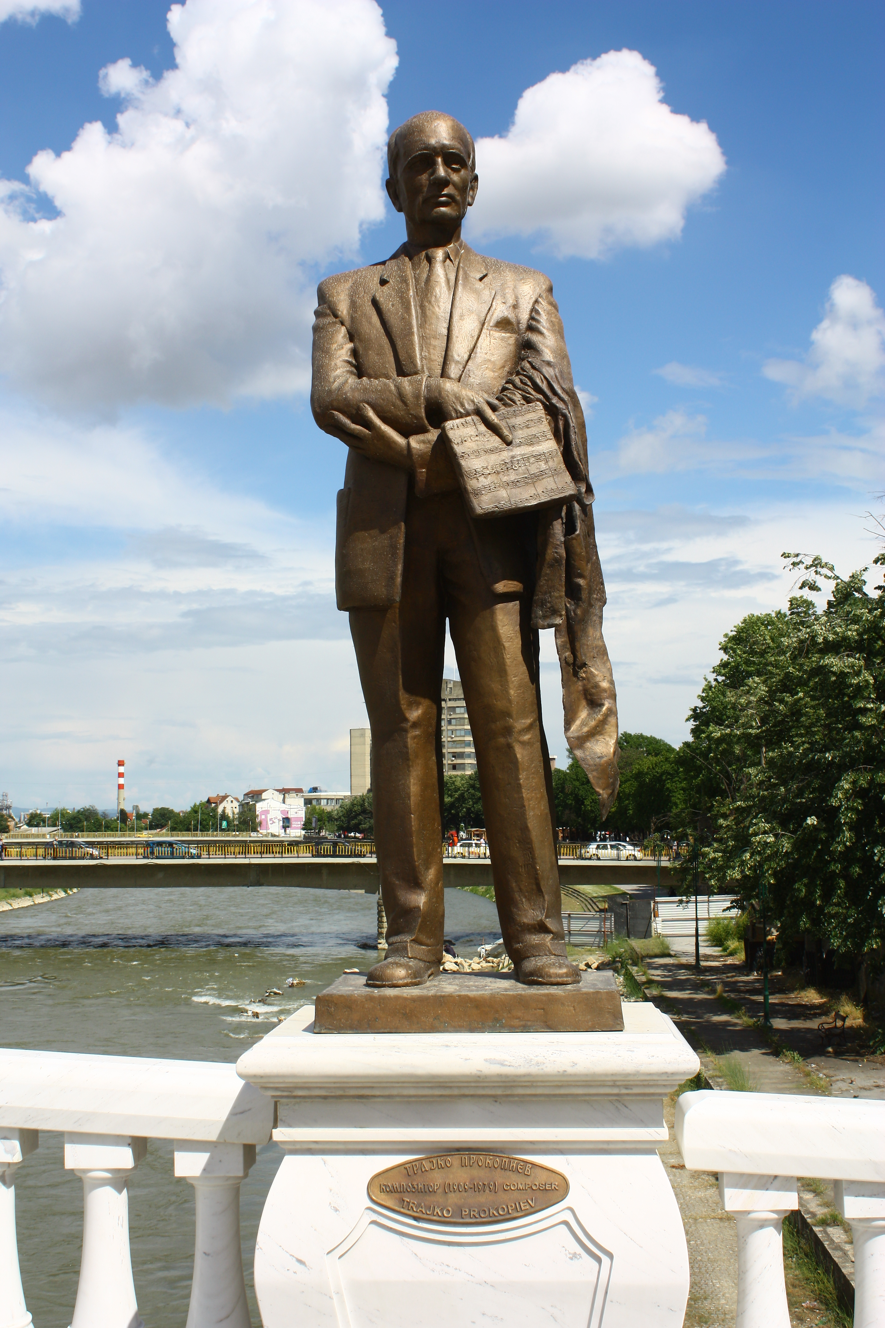 Sculpture od the Bridge of Arts in Skopje, Macedonia This image is uploaded as part of the picture contest Wiki Loves Cultural Heritage in Macedonia 2013. English | македонски | +/−